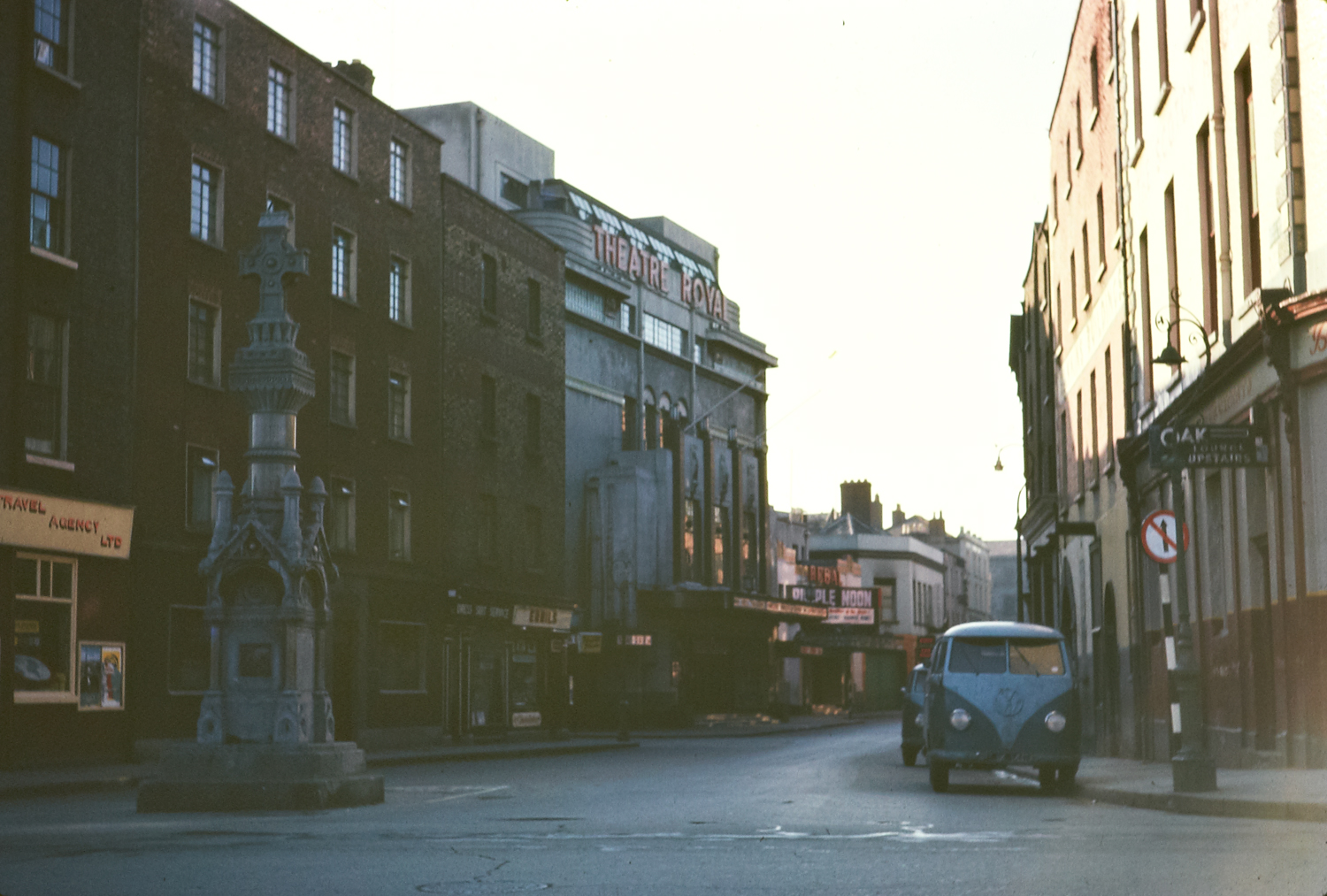 The late lamented Theatre Royal on Hawkins Street in Dublin. Thanks to swordscookie for this information on the monument in the foreground: "Monument to Constable Jeremiah Sheehan, 6' 4" tall of the DMP who went down into a drain at this point to rescue some council workmen who had been overcome with sewer gas and lost his own life!" Niall McAuley contributed this brilliant link outlining the long history of the Theatre Royal "including the programme of the final show, the "Royale Finale", which was on Saturday 30th of June at 8pm, just three months after this photo." Date: Sunday, 1 April 1962 NLI Ref.: WALK127